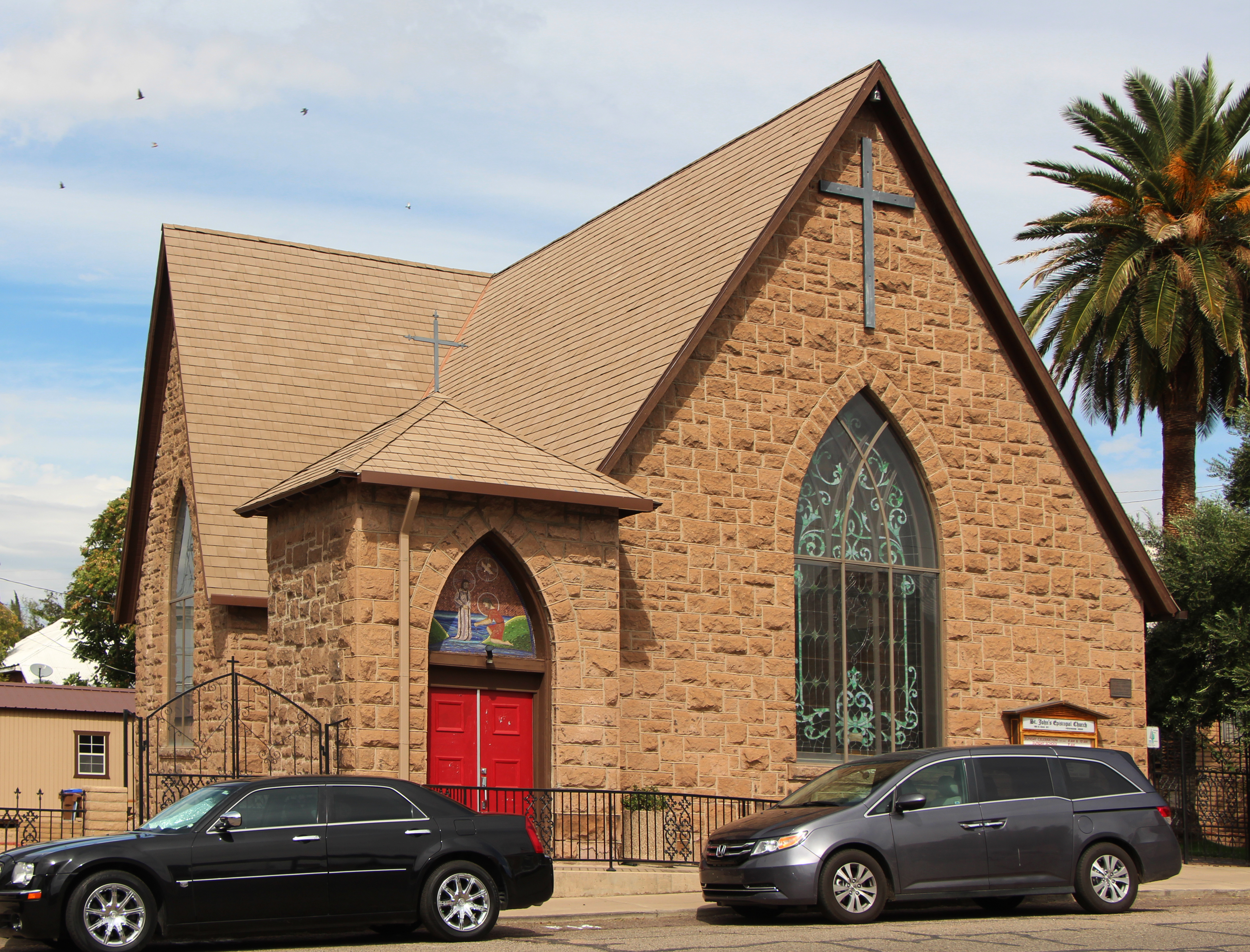 St. John's Episcopal Church, northwest corner of Hill Street and Oak Street, Globe, AZ